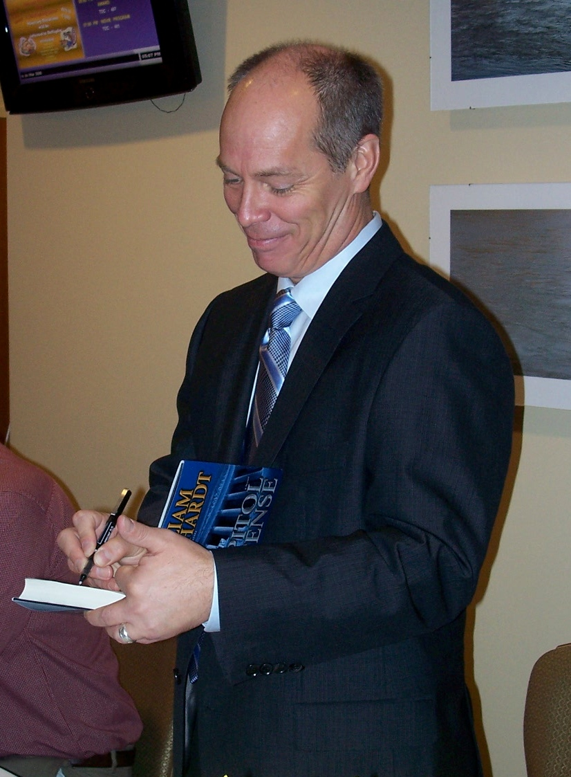 Original image caption from Flickr: William Bernhardt, bestselling author of Capitol Offense, accepted the 2009 Royden B. Davis, S.J., Distinguished Author Award on November 14, 2009 at the DeNaples Center.